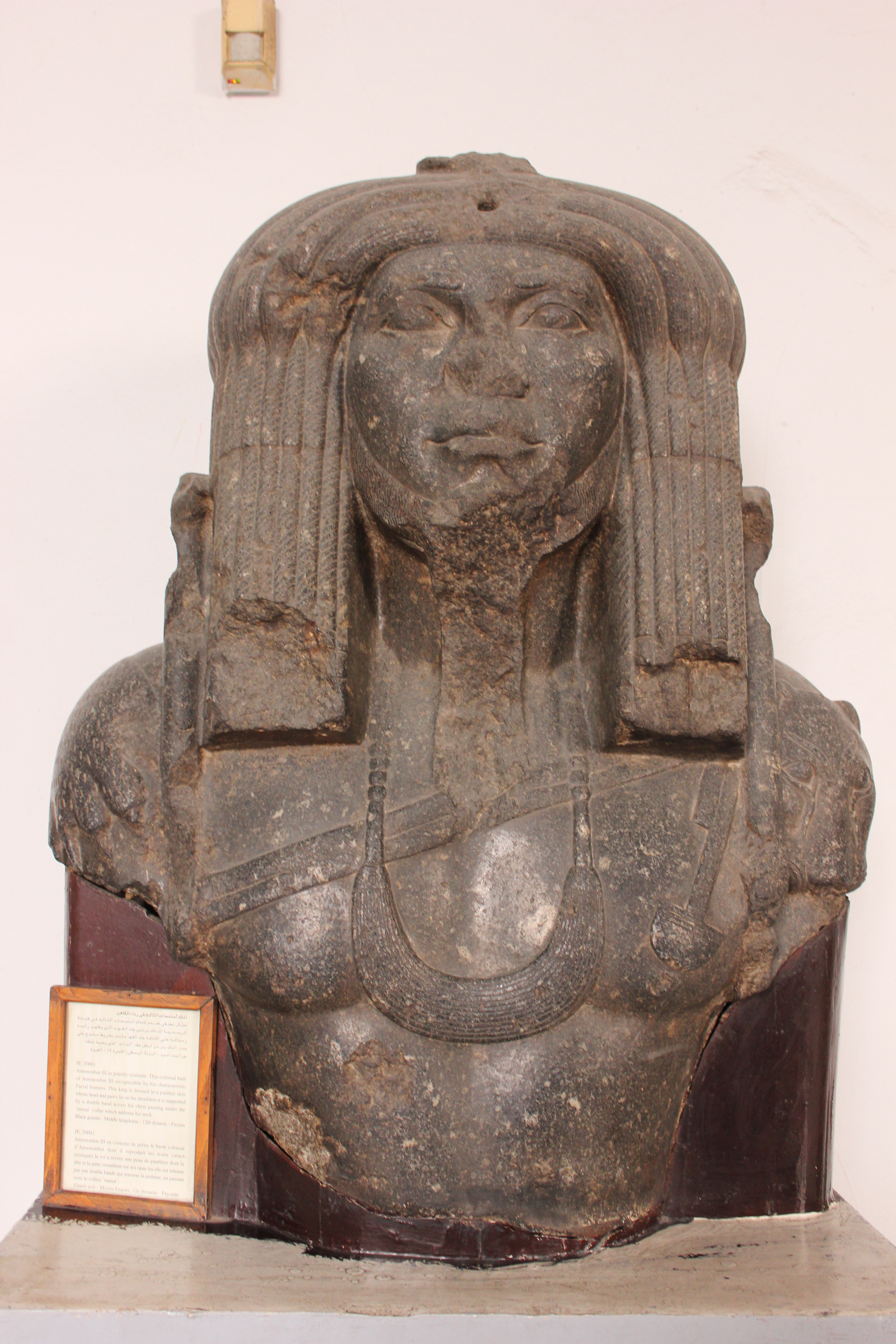 Amenemhat III in priestly costume, Egyptian Museum in Cairo, Egypt.)